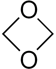 Chemical structure of 1,3-dioxetane